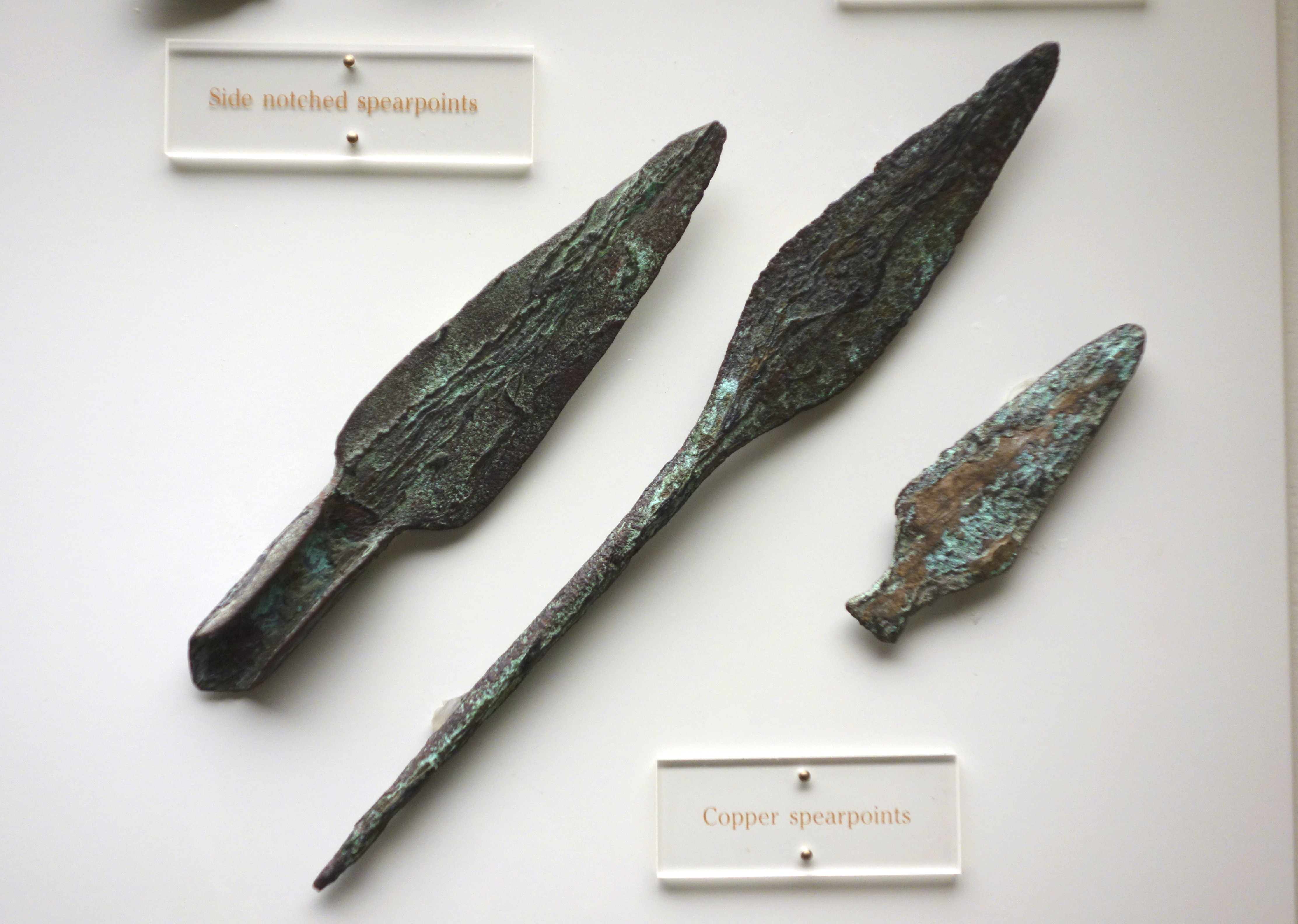 Archaic Indian copper artifacts, 3000 BC-1000 BC, exhibited in the Wisconsin Historical Museum, Madison, Wisconsin, USA. These items are old enough so that it is in the public domain.